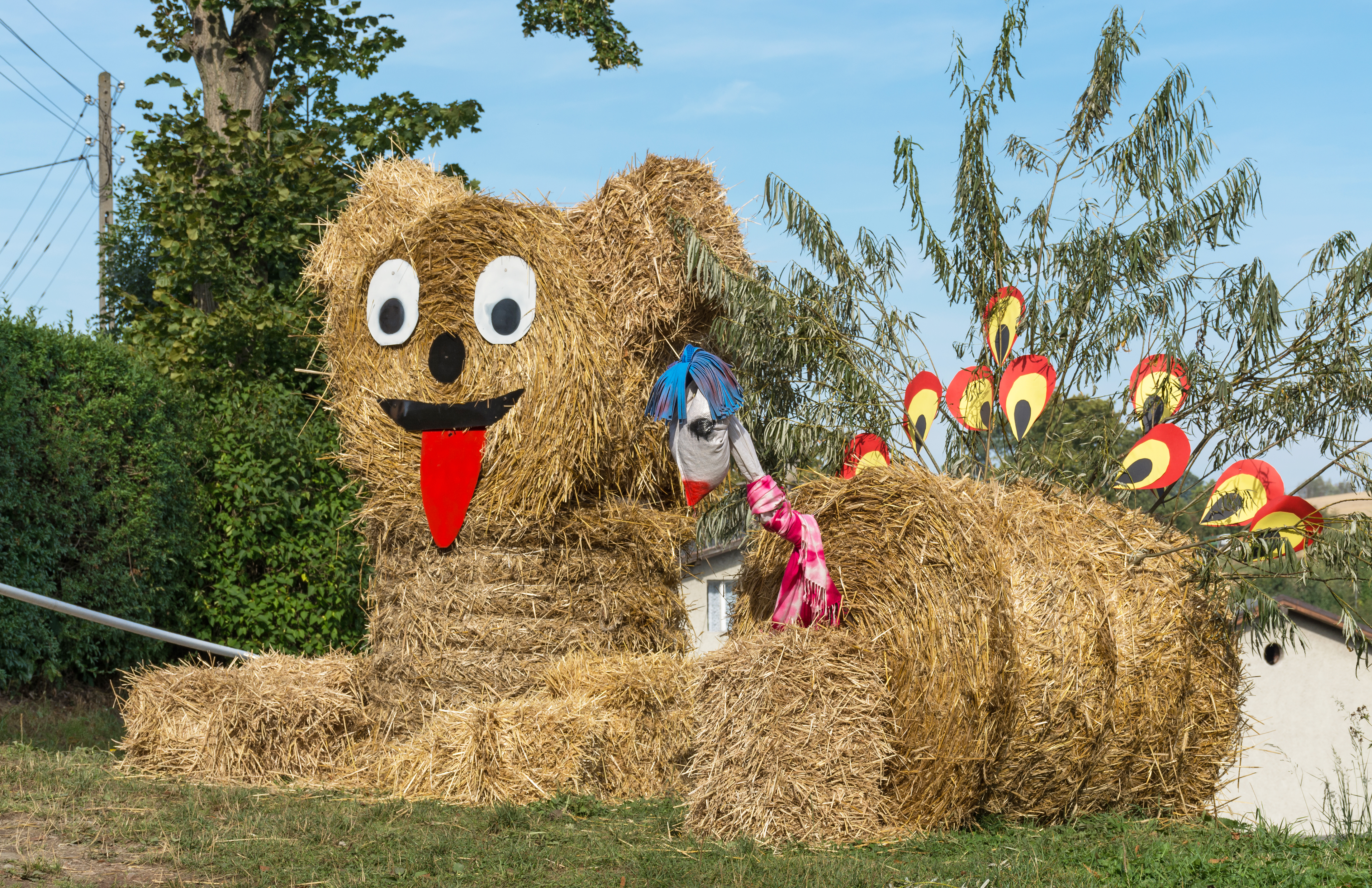 Dozhinki decoration in Wolibórz. Dozhinki is a Slavic harvest festival celebrated in the autumn.